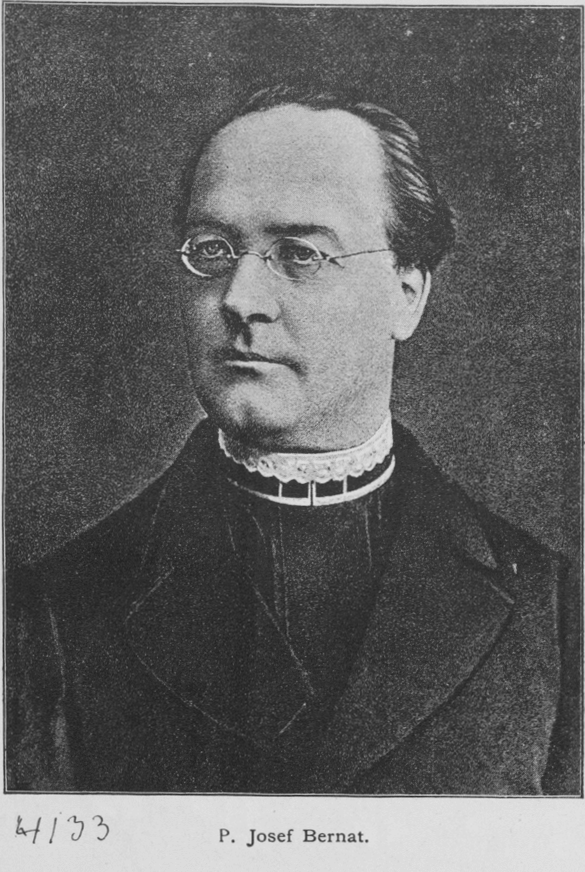 Portrait of Josef Bernat (1835-1915), Czech patriotic priest.